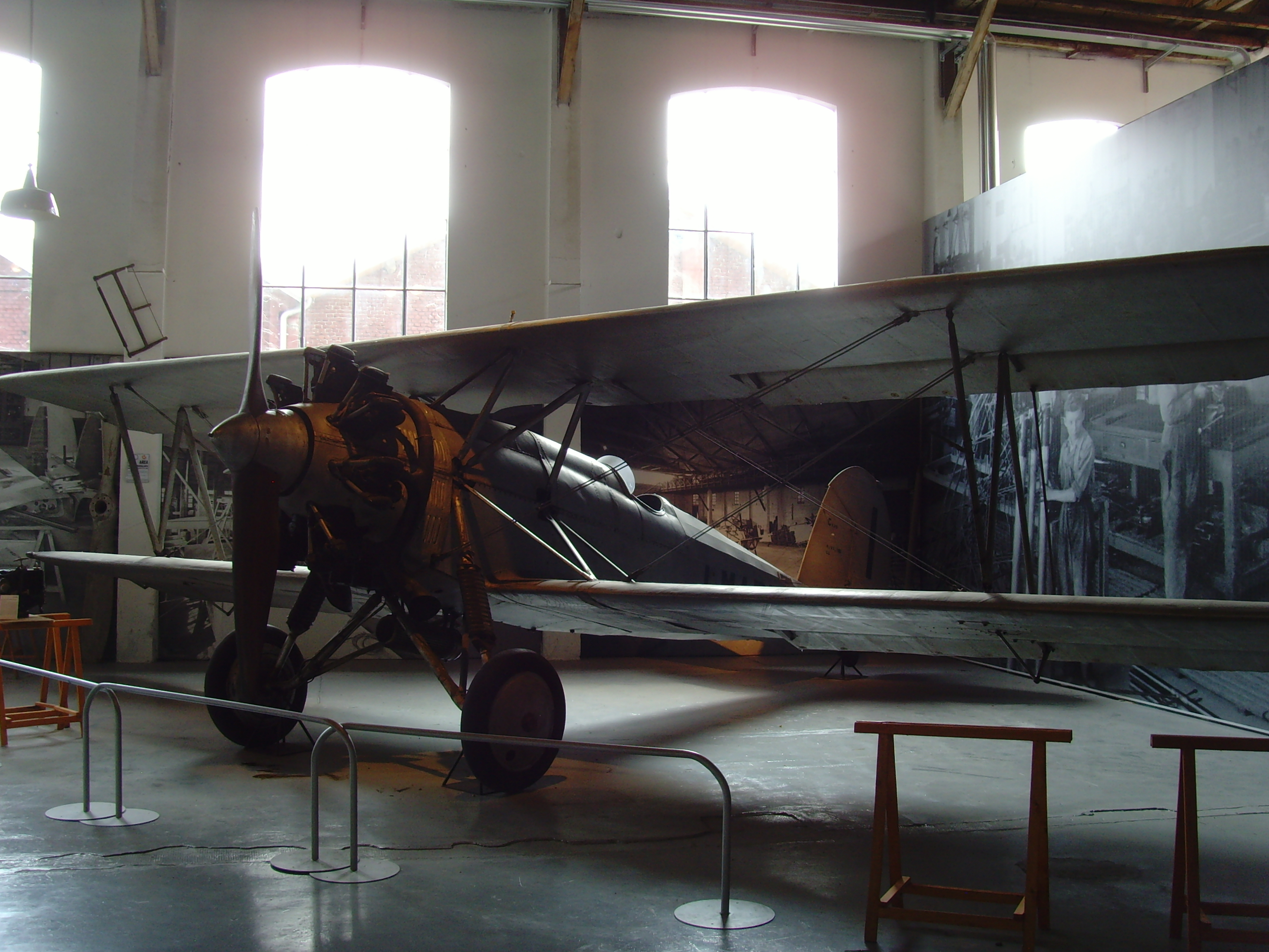 The Caproni Ca.113 displayed in Volandia museum